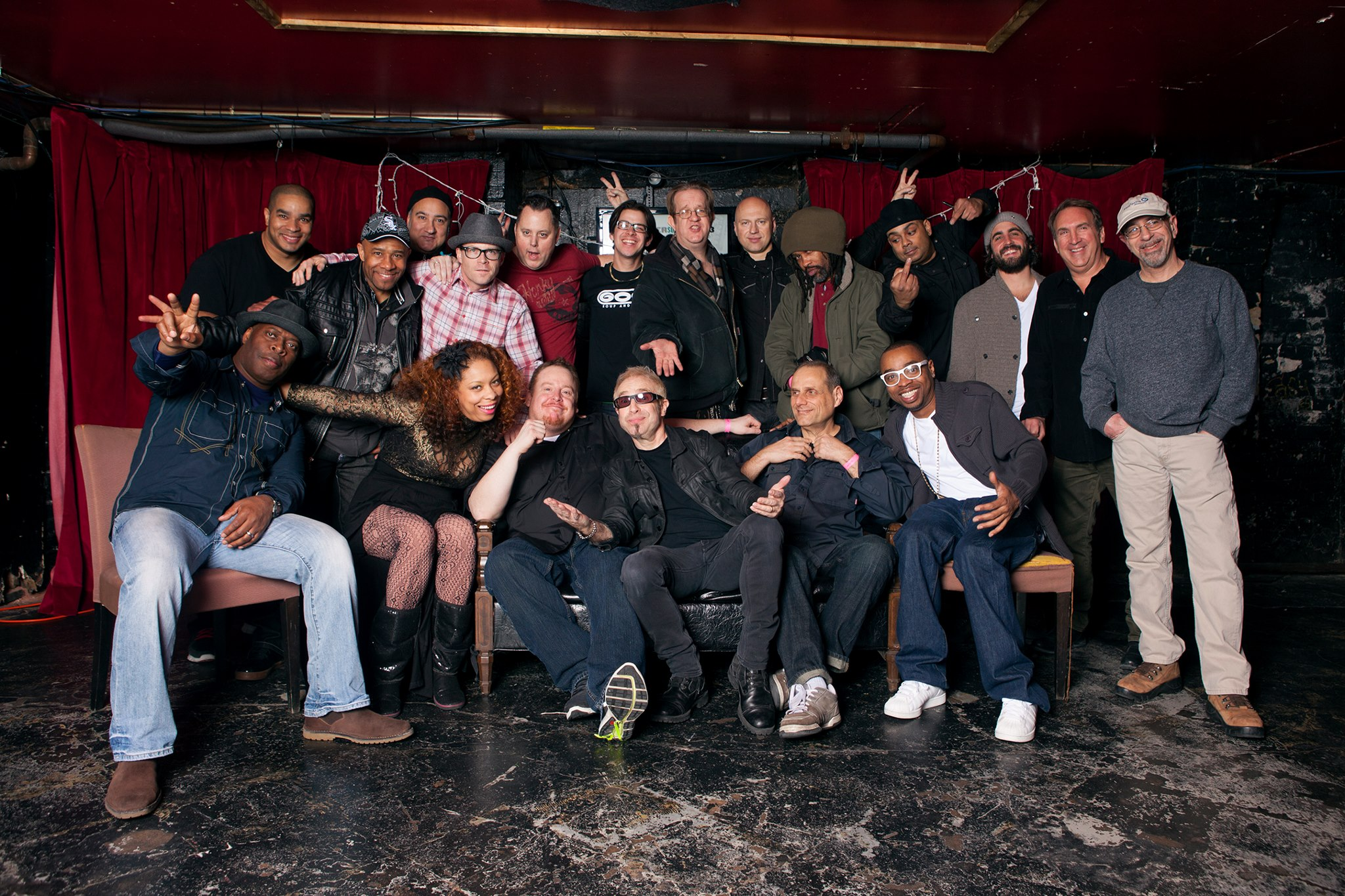 Group photo of past and current members of Liquid Soul after their 20th Anniversary Show at the Double Door in Chicago, IL on January 20, 2013